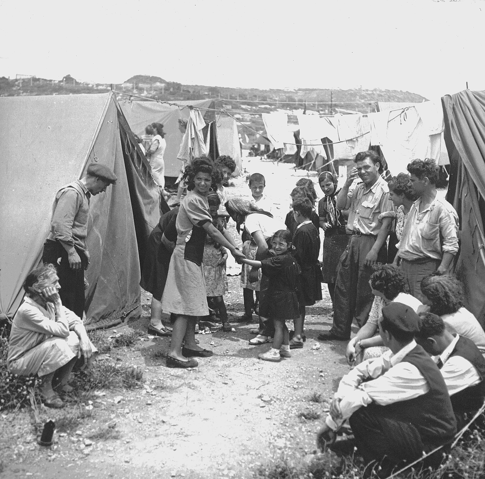 Maabara, 1950